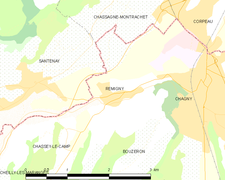 Map of French municipality